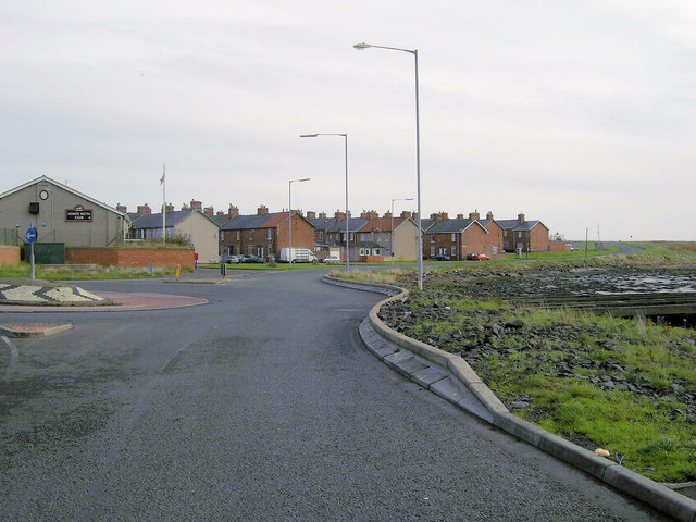 Houses North Blyth Hamlet